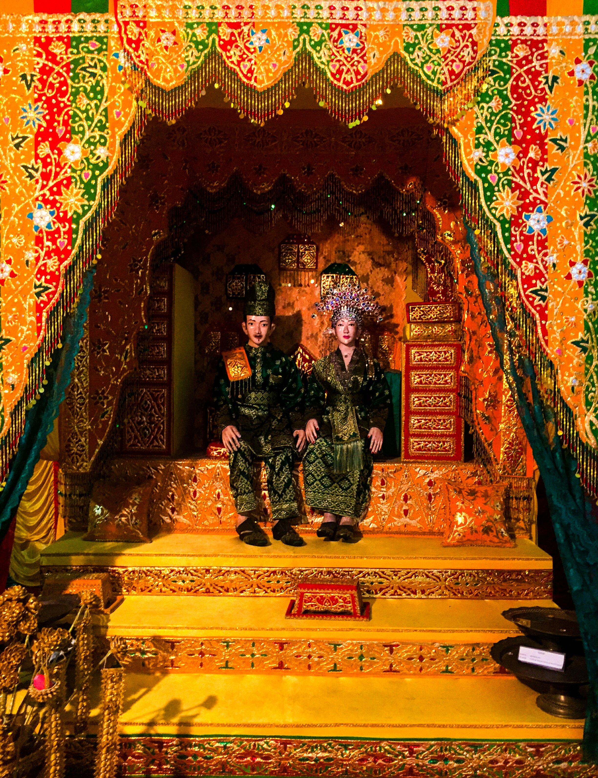 A traditional Malay wedding replica in Museum Sang Nila Utama, Pekanbaru, Riau, Indonesia.